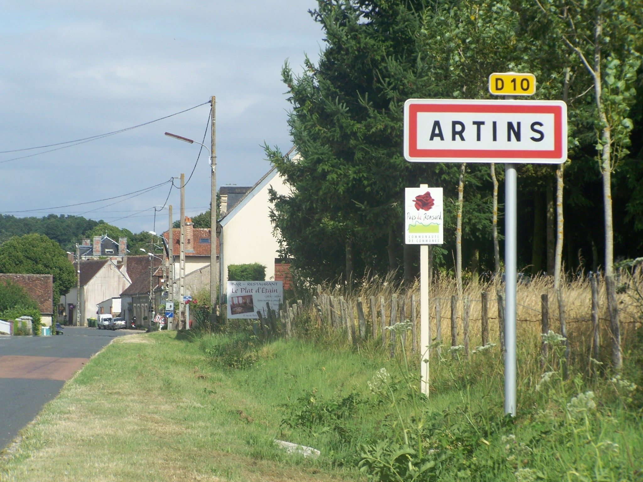 Welcome to Artins in Loir-et-Cher, France.